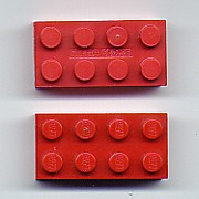 Mega Bloks vs. LEGO Mega Bloks building block (above) and Lego building brick (below) Actual items, scanned and uploaded by BuilderQ.